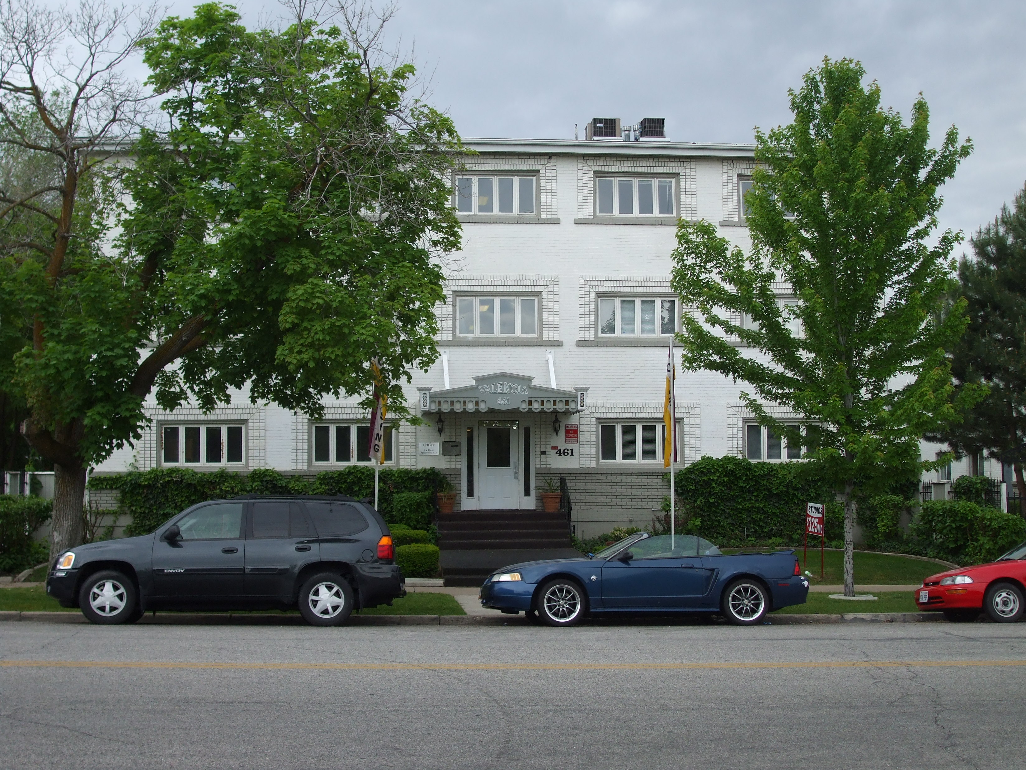 The La Frantz Apartments, a historic building in Ogden, Utah, United States.